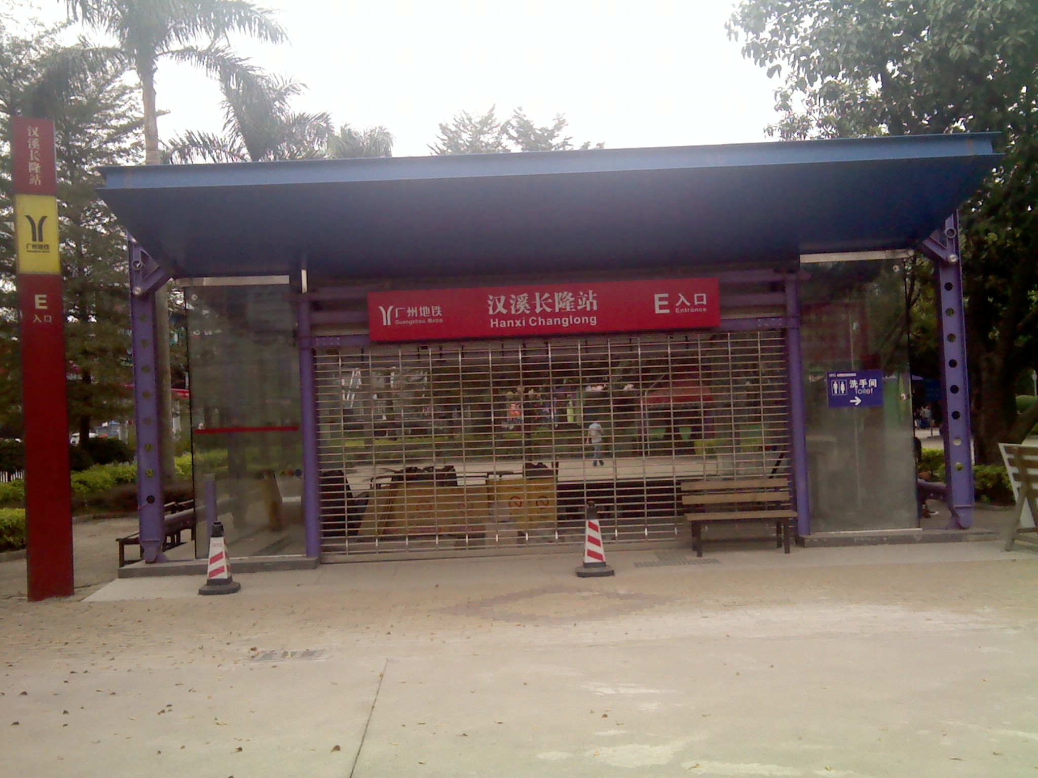 封闭的汉溪长隆站E出入口